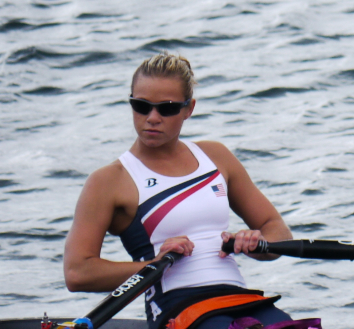 The A final of the TA mixed double sculls at Eton Dorney Lake, summer Paralympics London 2012. Gold: China -Xiaoxian Lou & Tianming Fei Silver: France - Perle Bouge & Stephane Tardieu Bronze: USA - Oksana Masters & Rob Jones The Team GB double of Samantha Scowen and Nicholas Beighton missed out on a medal by 0.21 of a second coming in 4th.